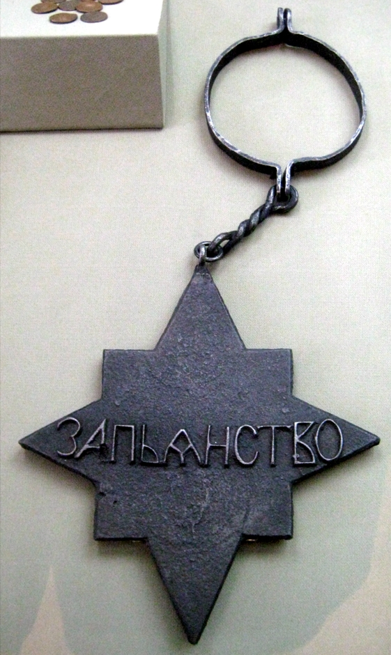 Collar with so called medal "For hard drinking", 9 pounds weight cast iron, for workers of Demidoff's factories. 18 century, Russia, Ural.